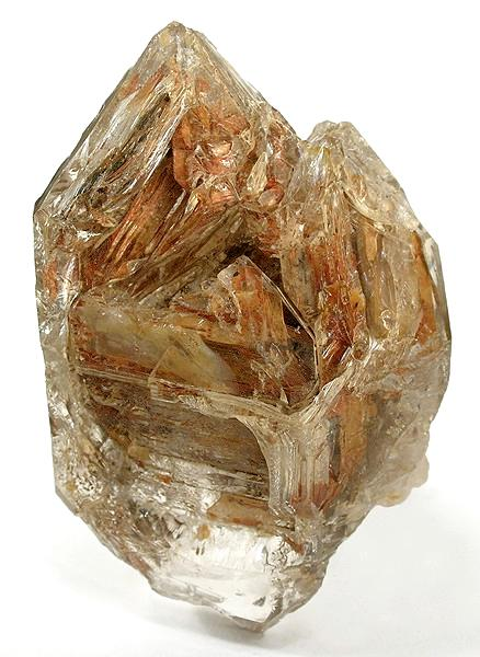 Quartz Locality: Avery County, North Carolina, USA (Locality at ) Size: 9.8 x 7.0 x 6.6 cm. An uncommonly glassy, transparent and striking quartz crystal from the Vandall King and Richard Hauck Collections. This complete-all-around, doubly terminated crystal has incredibly pronounced, recessed, skeletal features and amazing, parallel, clay inclusions that give the crystal an-other-worldly look. The back is heavily etched, but has no damage. This riveting, very uncommon, older specimen is from Avery County, North Carolina, which is well-known for quartz and hyalite opal specimens. The Hauck collection was one of the largest quartz collections in the US.